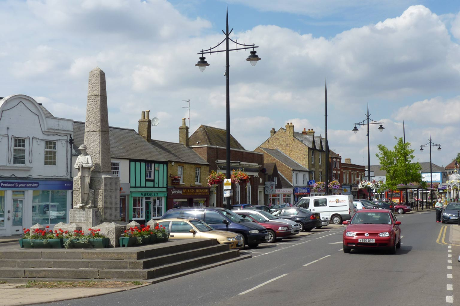 March, Cambridgeshire Broad Street